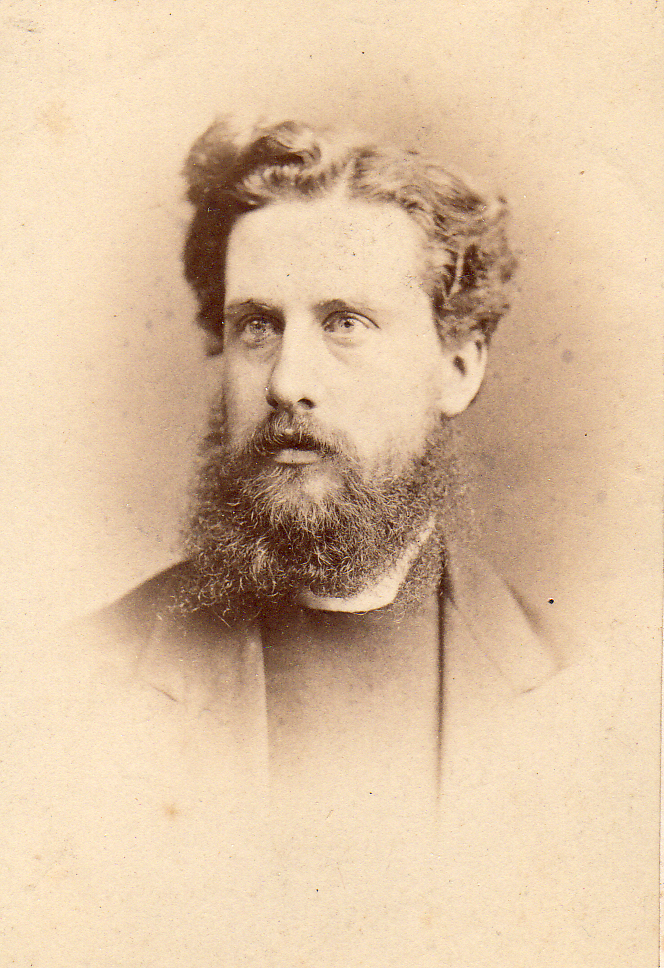 Rev Henry Hayes Vowles (born at Victoria Park Farm, 26 June 1843, Bath, England and died 13 November 1905, Gloucester, England) was an English author, theologian and a Wesleyan Minister. He also published religious poetry.